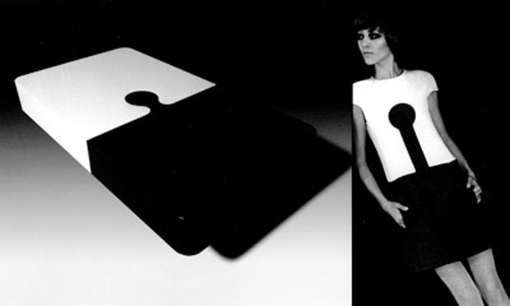 The table and the dress "Espace".